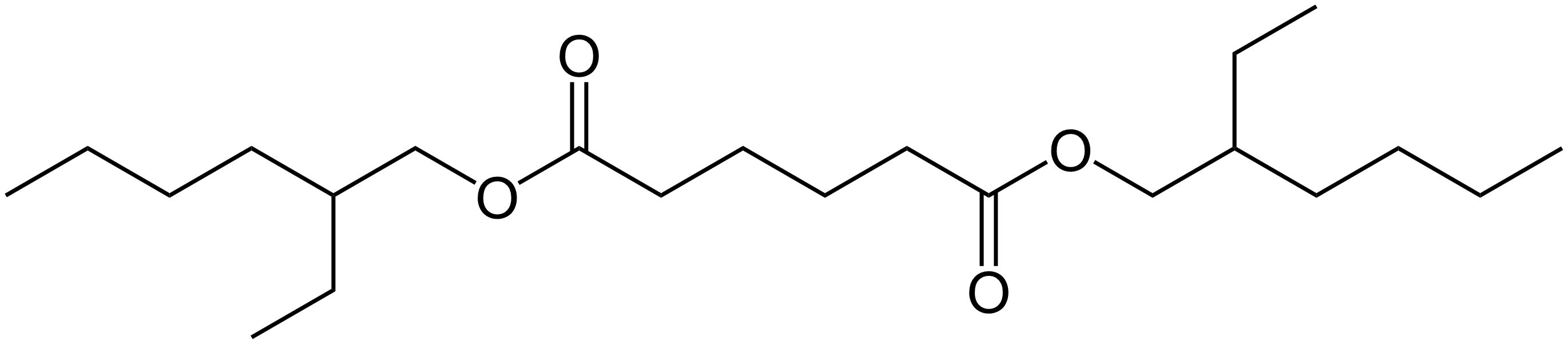 Chemical structure of bis(2-ethylhexyl)adipate